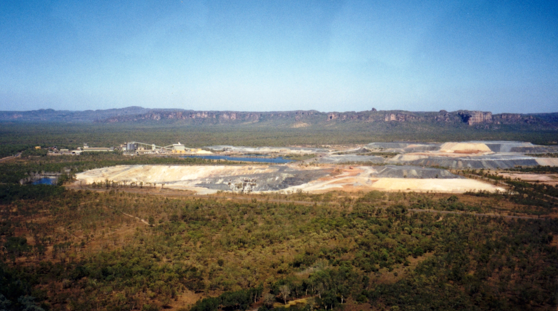 Aerial view of the Ranger Uranium Mine, a controversial Uranium mining operation in Kakadu National Parken. Corrected version (rotated to fix horizon, cropped, brightness adjusted).